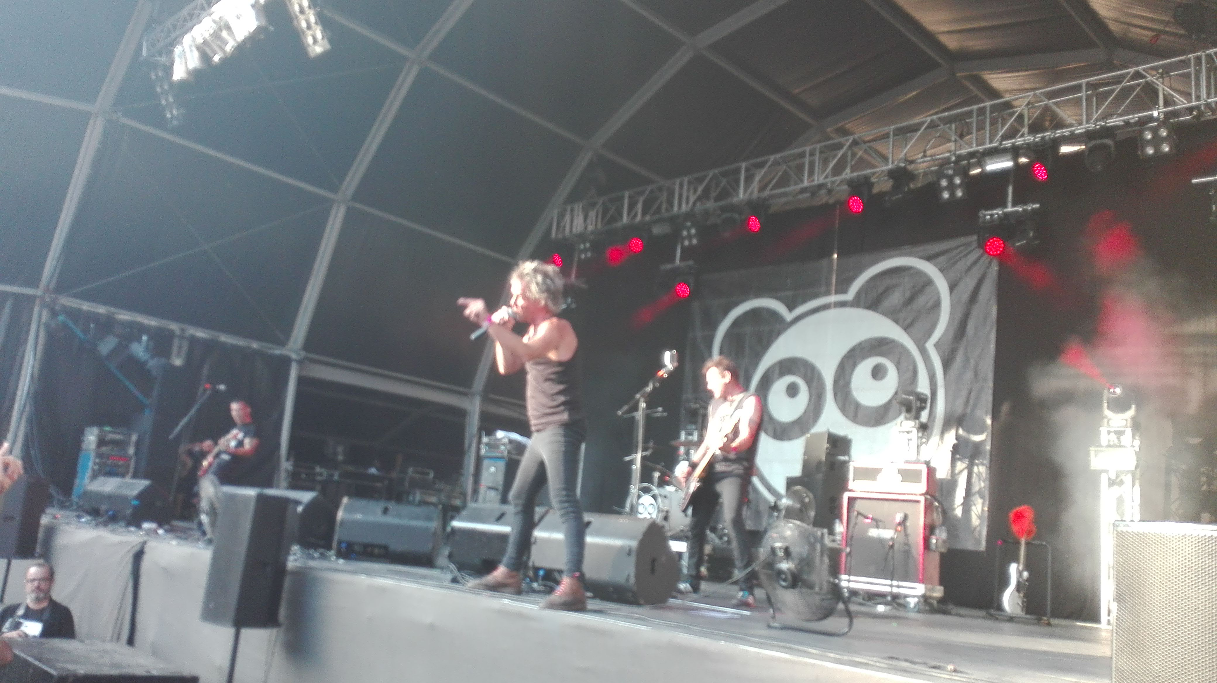 Concert of the Basque punk-rock music band Lendakaris Muertos in the 2017 Hatortxu Rock festival, celebrated in Lakuntza town.